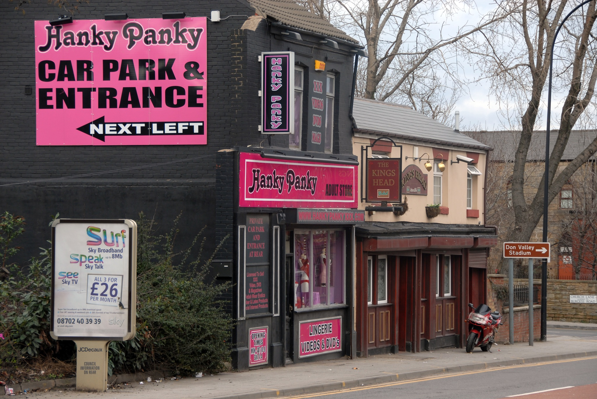 British Isles urban Making Britain Great